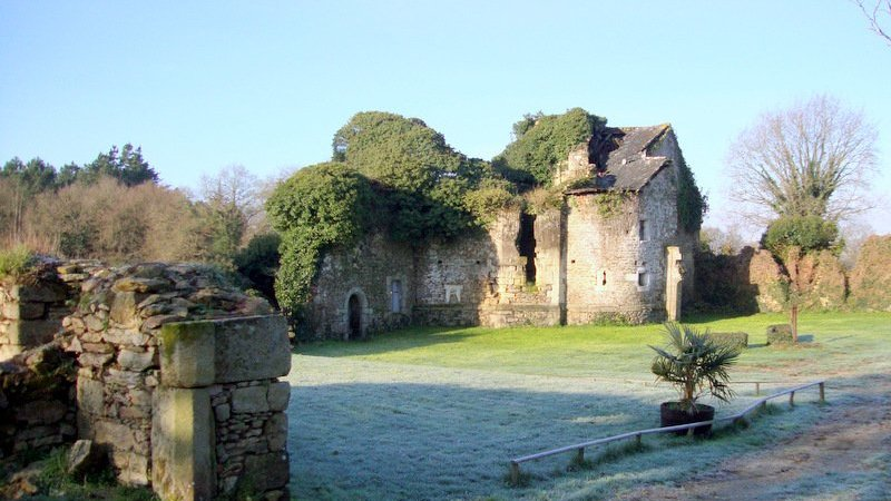 Middle-âge Castle ruins of "Prédit" à Marzan near La Roche Bernard (56) in France.